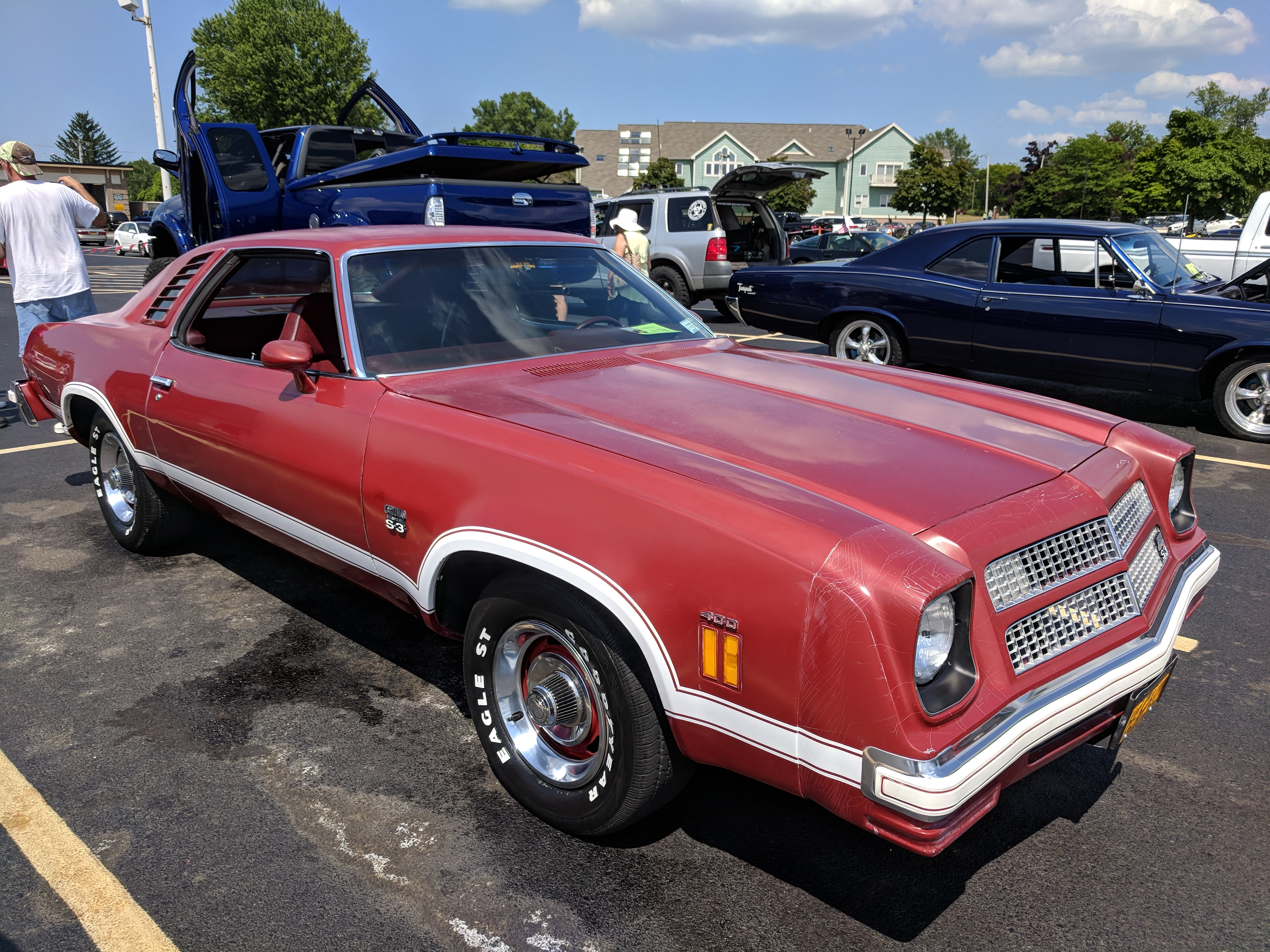 2018 Chil-E Festival and Independence Day (United States) celebration in Chili, New York